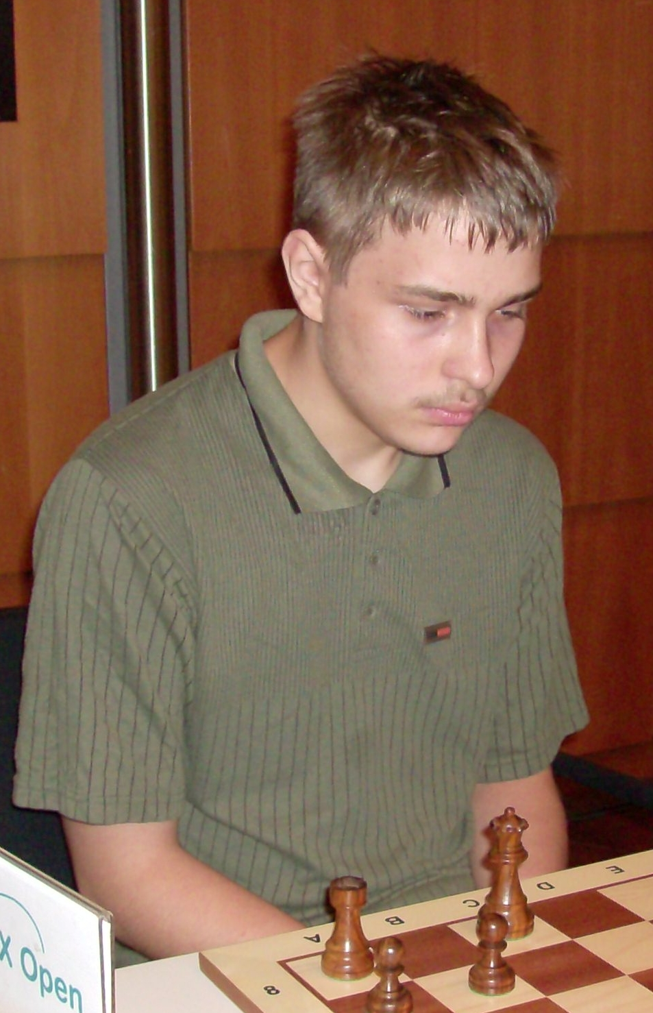 Peter Prohaszka, Hungarian chess master